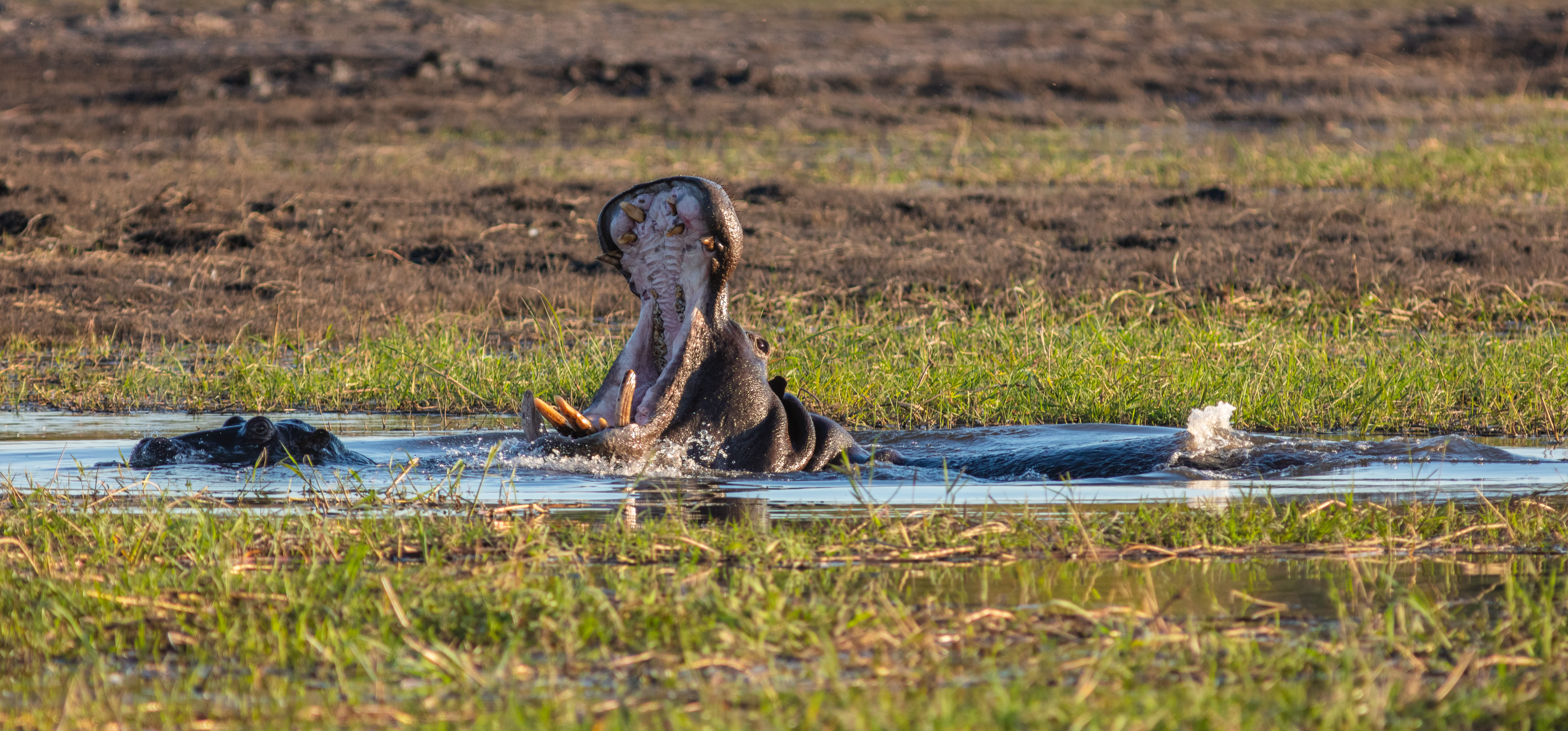 Hippos (Hippopotamus amphibius), Chobe National Park, Botswana